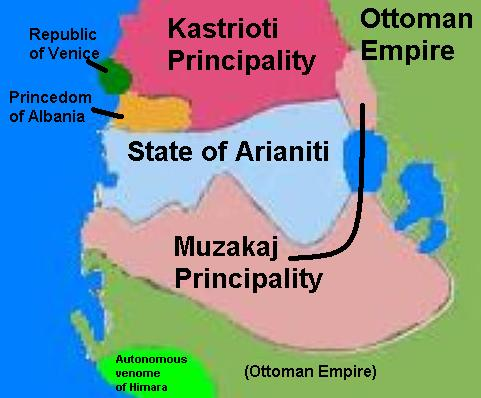 Principality of Muzakaj and State of Arianiti 15 century